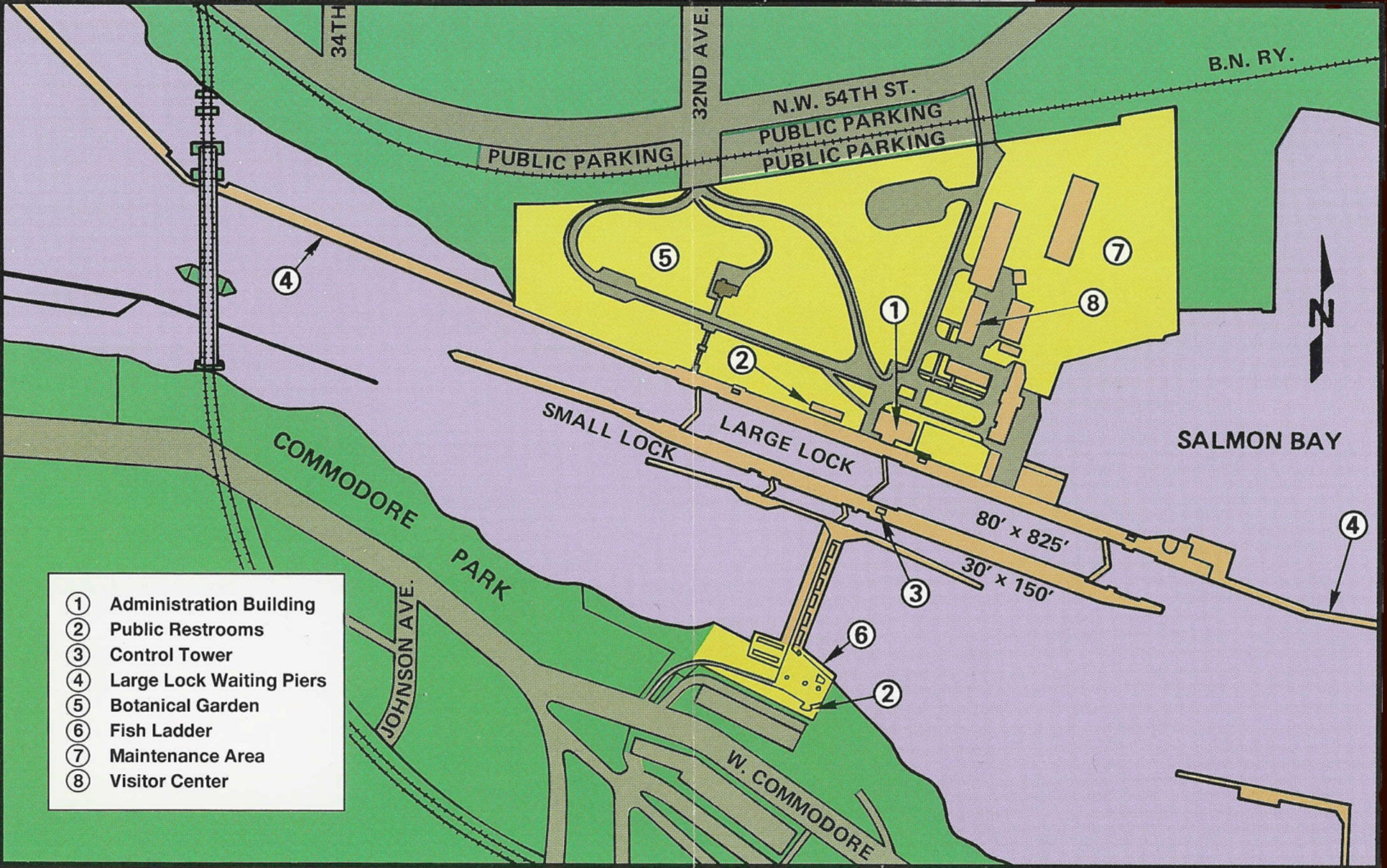 Map of the Hiram M. Chittenden Locks, Seattle, Washington, scanned at 600 dpi and cleaned up. Major features are labeled on the map; buildings in the locks complex are numbered, and a legend indicates what they are.